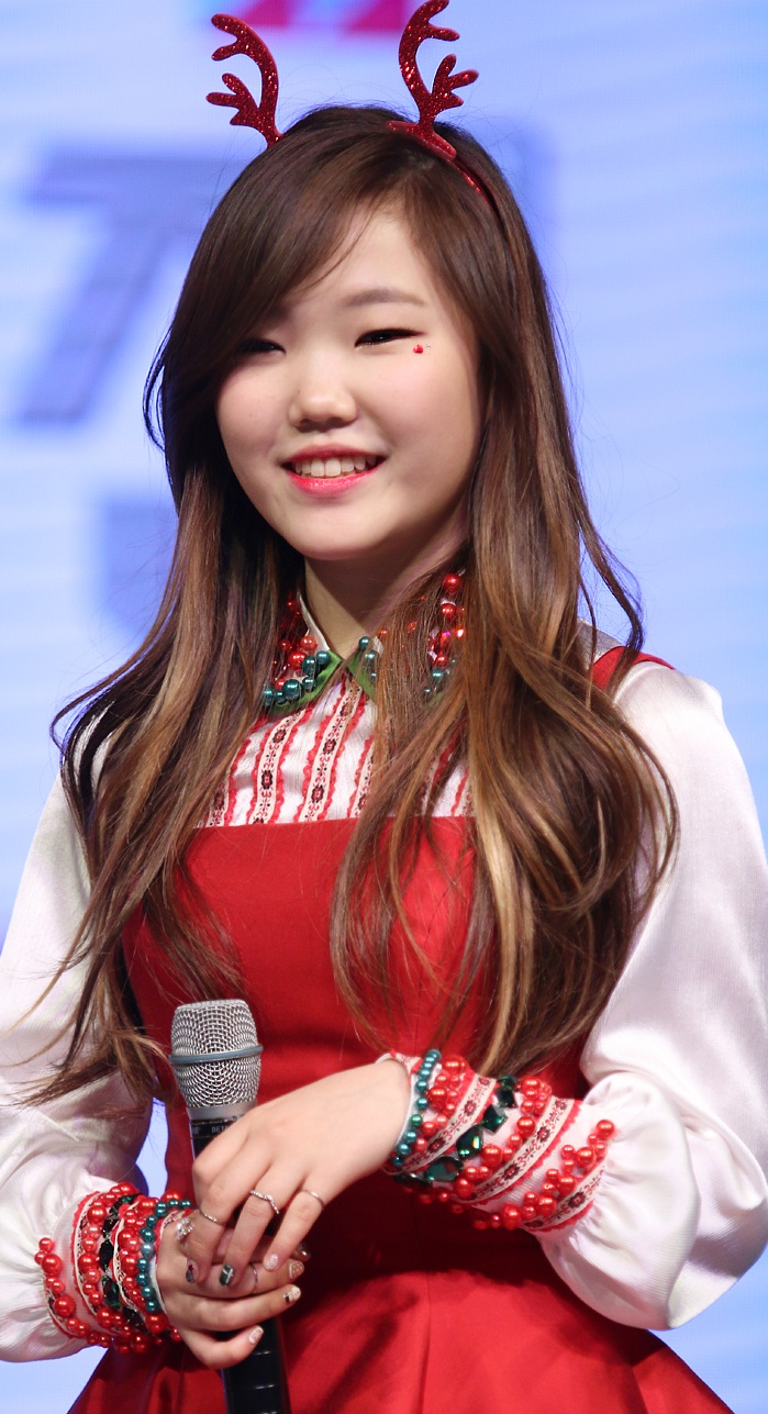 141221 SBS 어워즈 수현